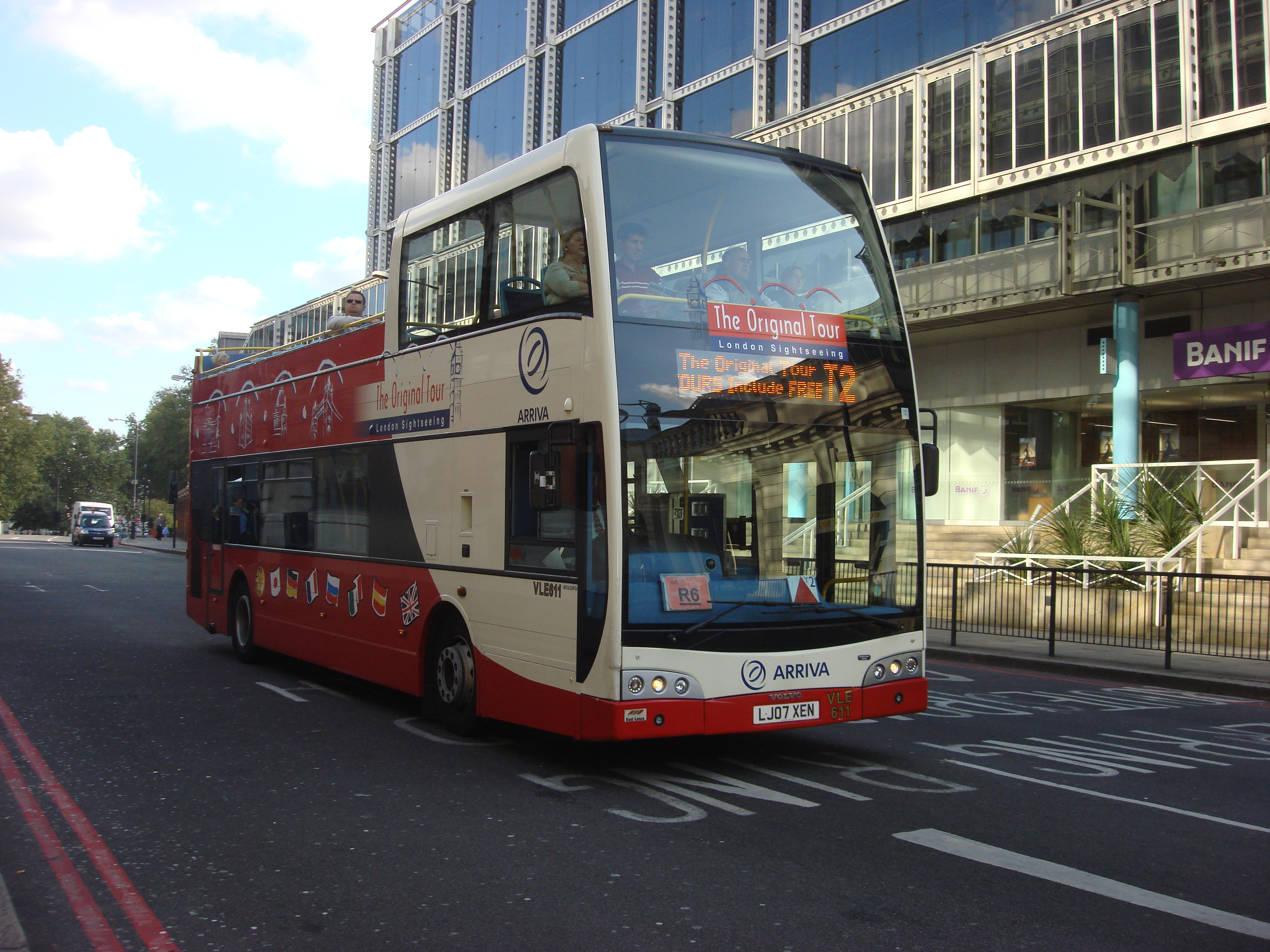 A bus on "The Original Tour" number VLE611